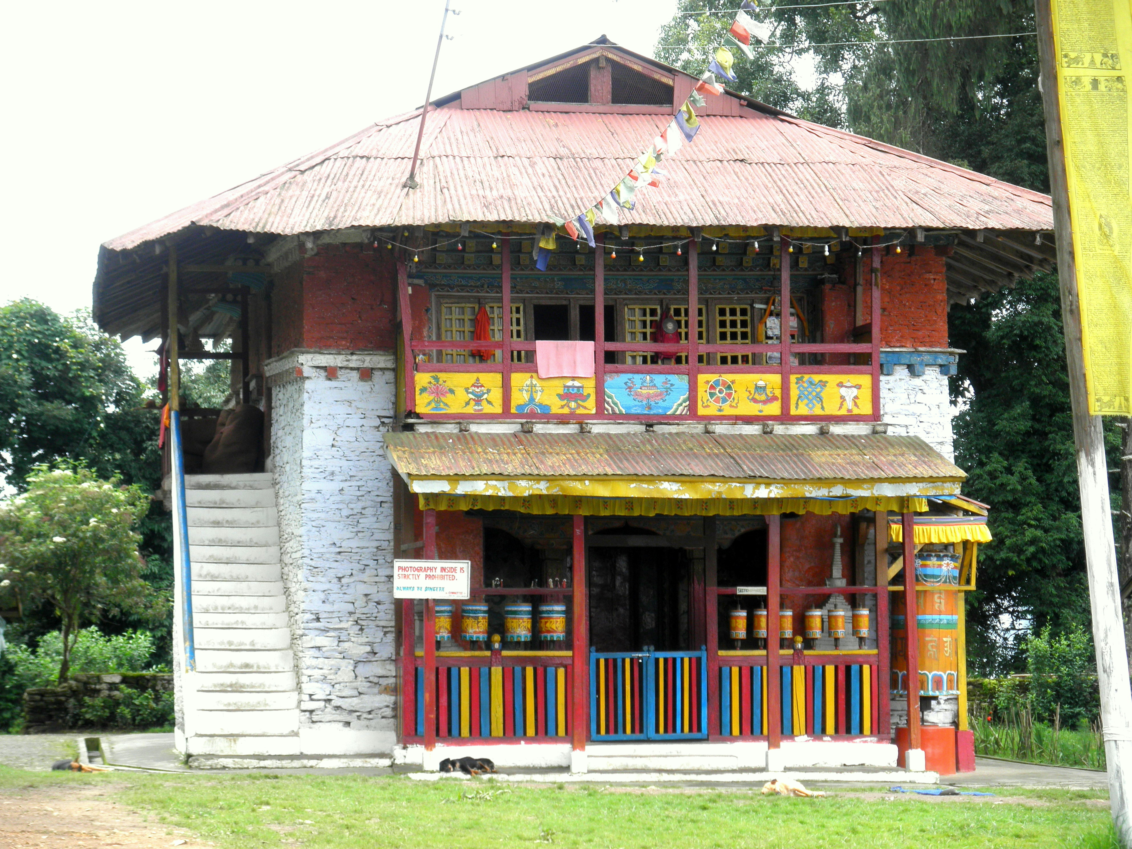 this photo shows the front entrance of the Rinchenpong monastery